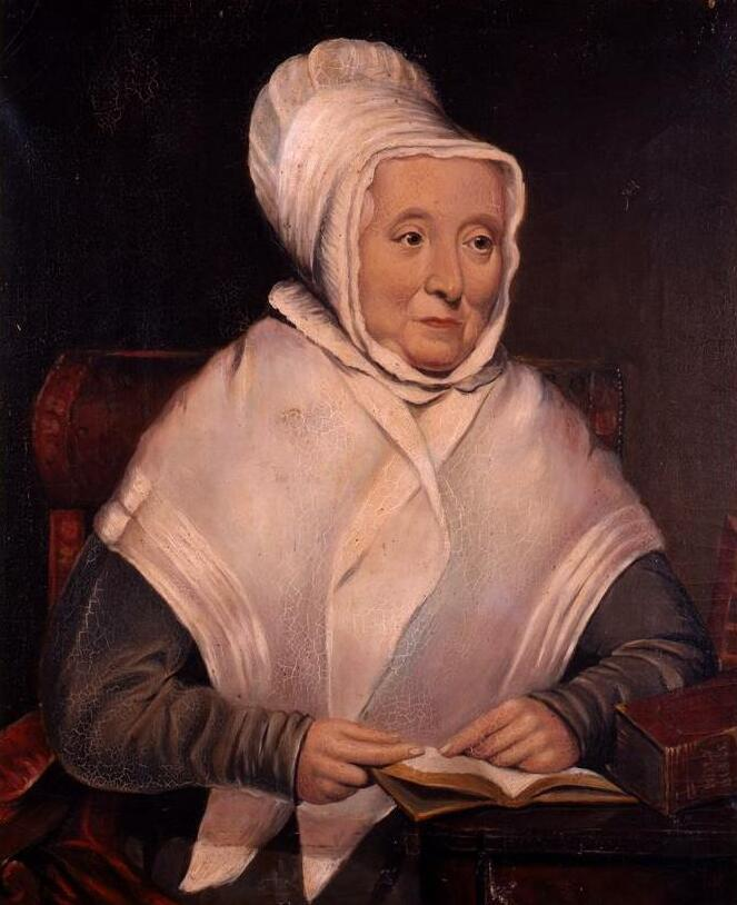 "Half length portrait of author Hannah Adams. She wears a blue dress with a white shawl and bonnet. She holds an open book in her hands and rests against a small table. "